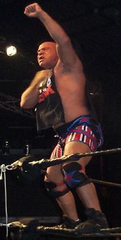 Kurt Angle at the New Alhambra arena. 6-2006. I took the pic